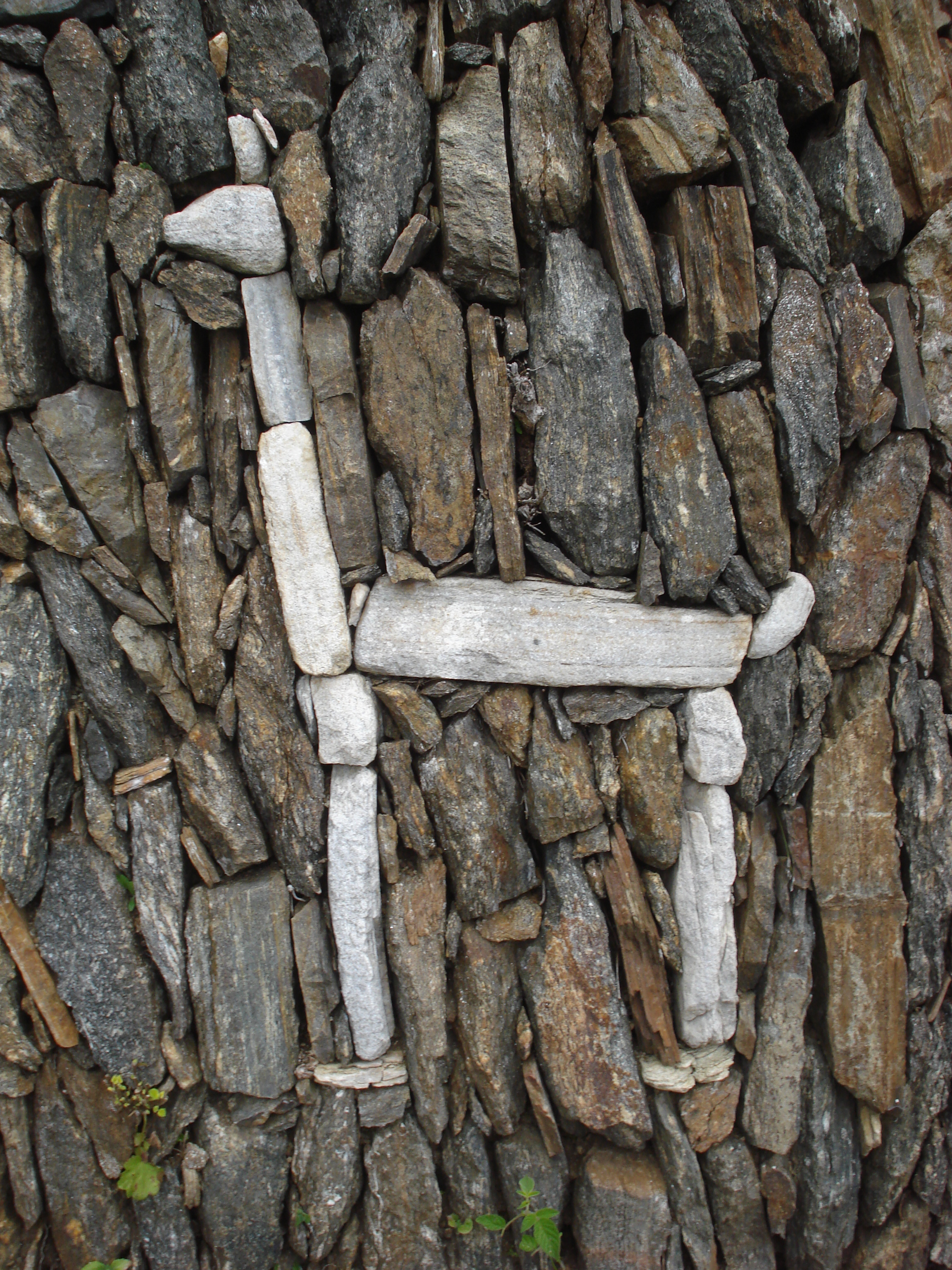 White stone llamas Choquequirao